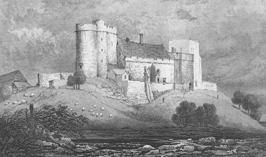 Engraving of "Lympne Castle, Kent" from Ireland's History of Kent, Vol. 4, 1831. It appears between pages 256 and 257. Drawn by G. Sheppard, engraved by H. Adlardoffe.